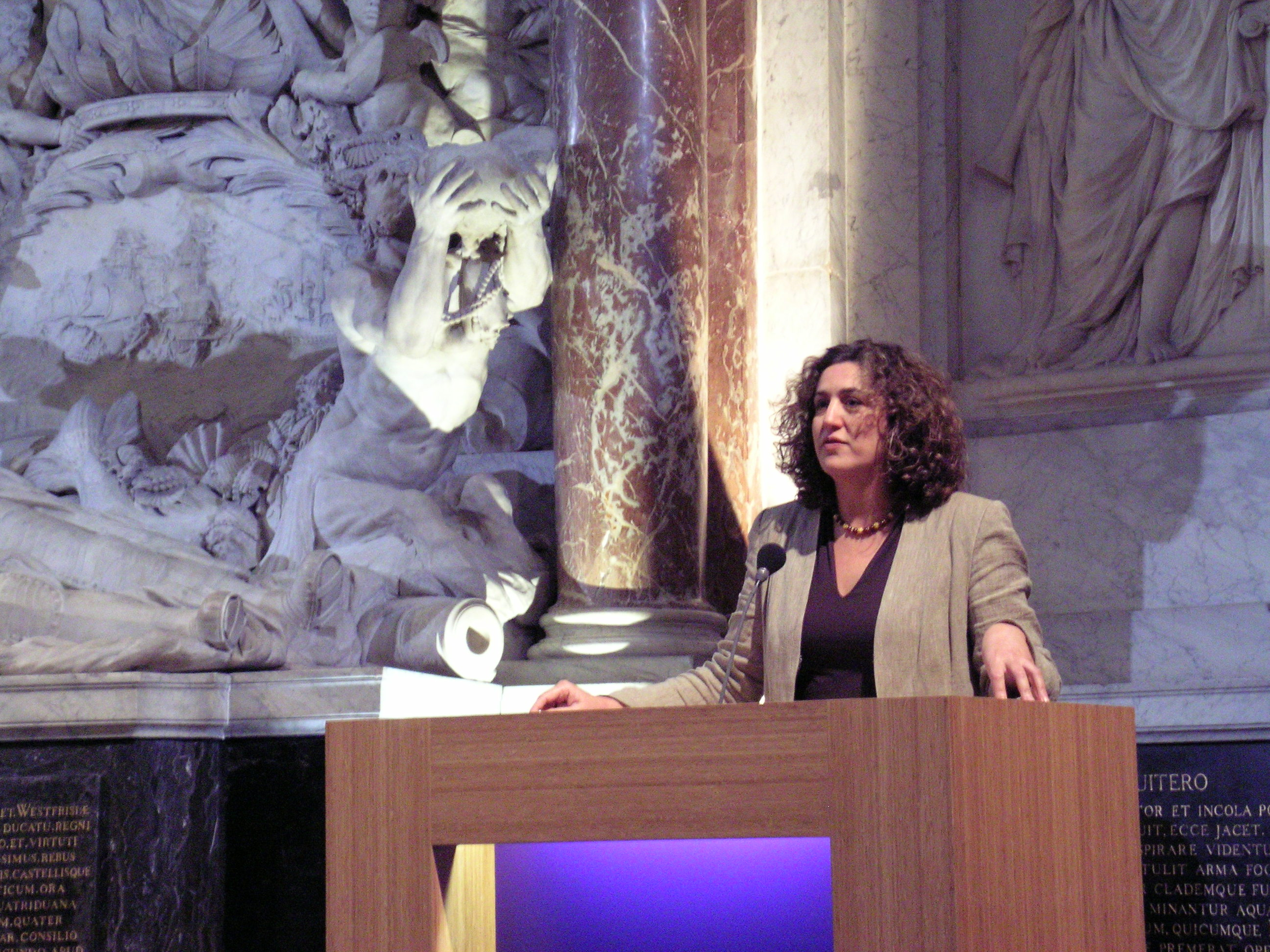 Halleh Gorashi at the manifestation of Hans Dijkstal's Een Land Een Samenleving at 2006-11-11 in the Nieuwe Kerk (New Church) in Amsterdam. Original filename: Dscn6486.jpg